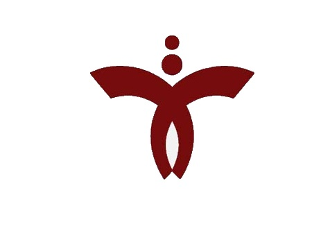 Flag of Nishiwaki Hyogo